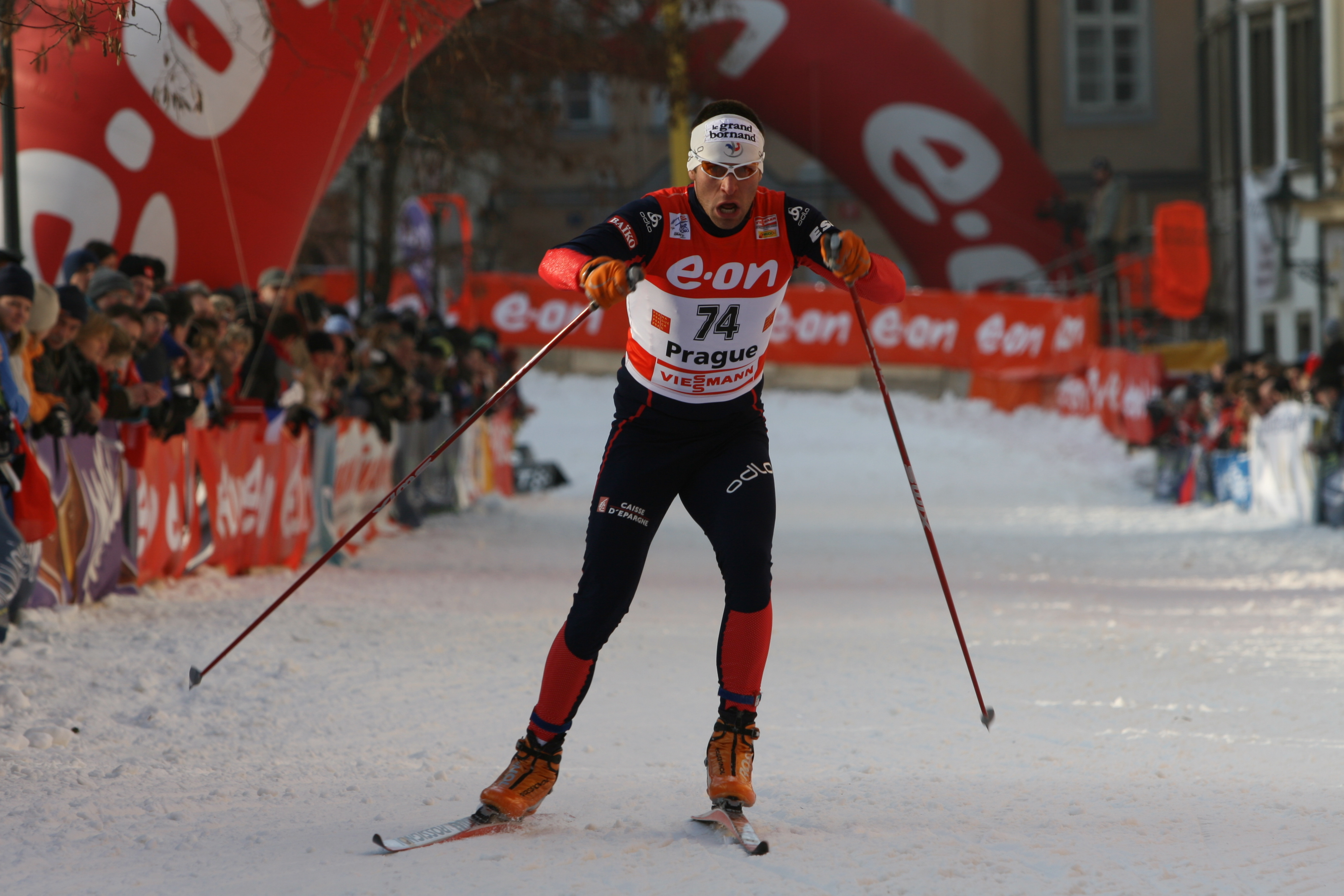 Roddy Darragon in the qualification of Tour de Ski in Prague